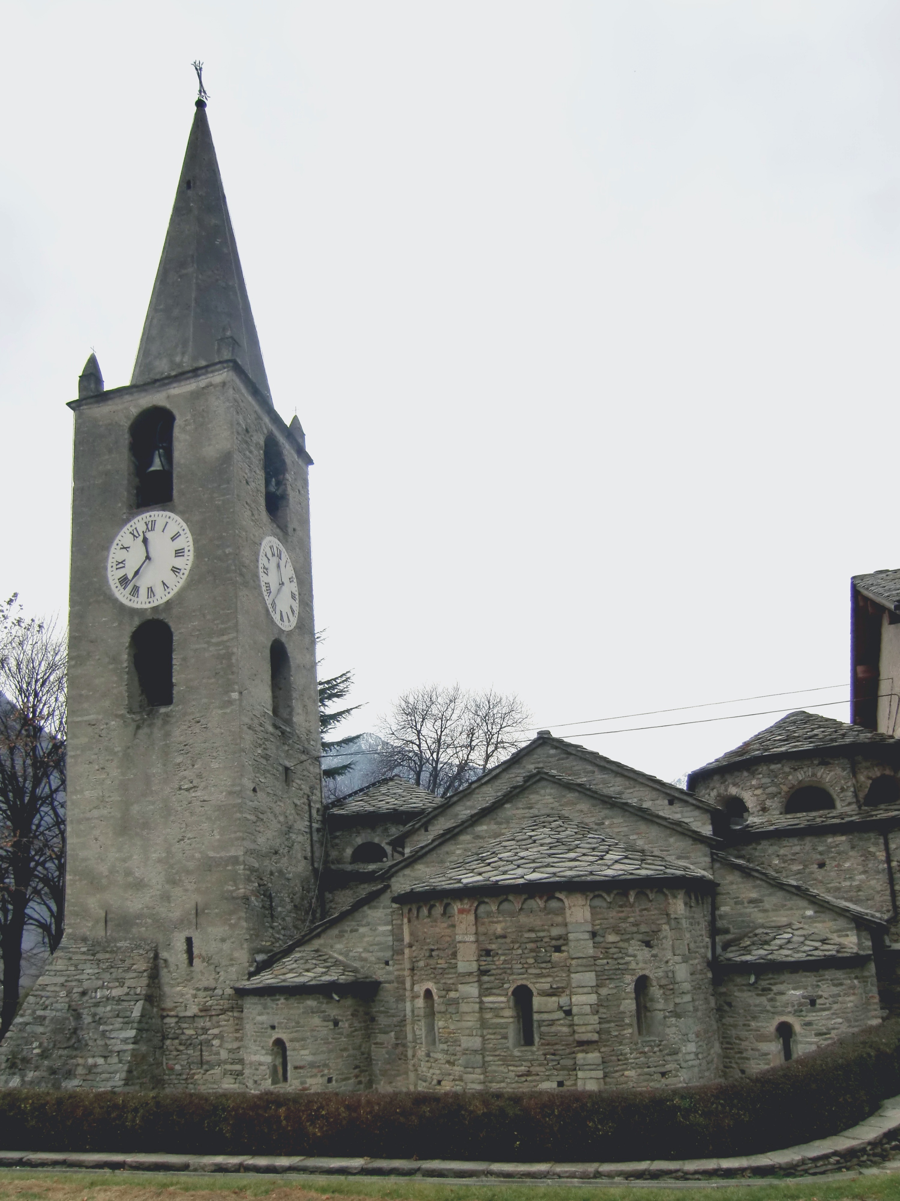 Arnad (Aosta Valley), church of San Martino, Apses (XI century) and the bell-tower (XVII century)